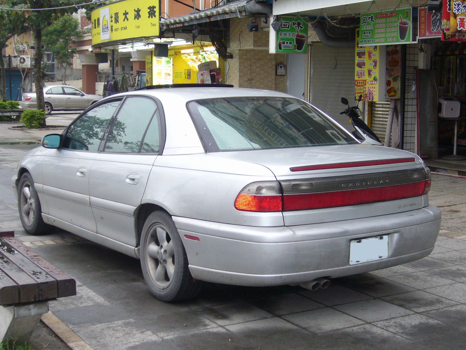 Cadillac Catera